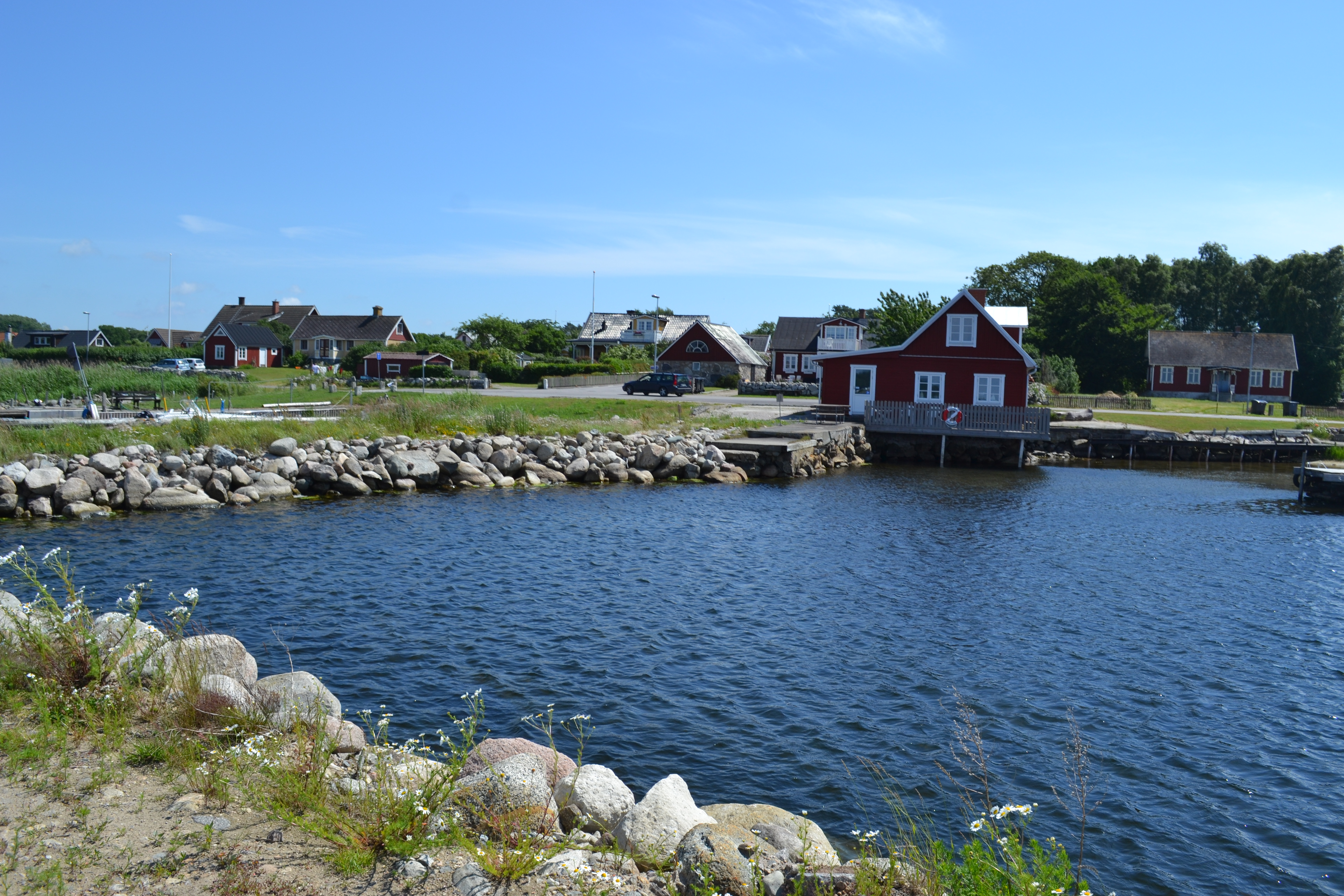 The harbour at Västra näs, Sölvesborg, Sweden